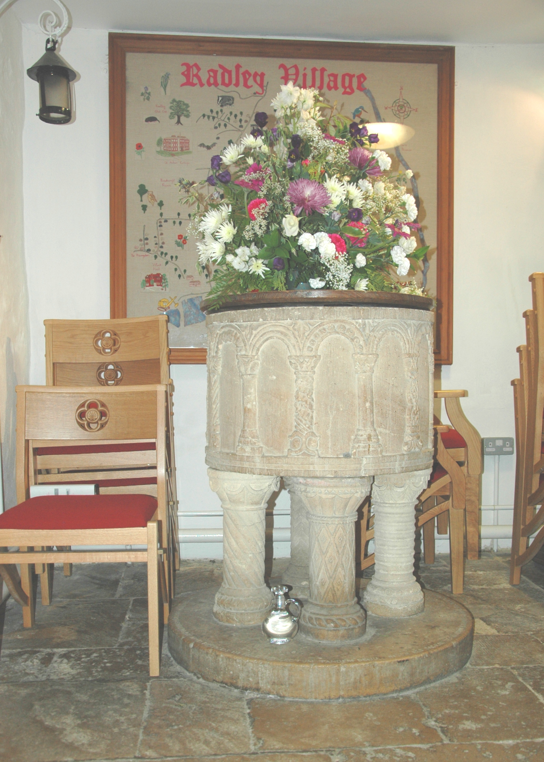 Church of England parish church of St James the Great, Radley, Oxfordshire (formerly Berkshire): Norman baptismal font